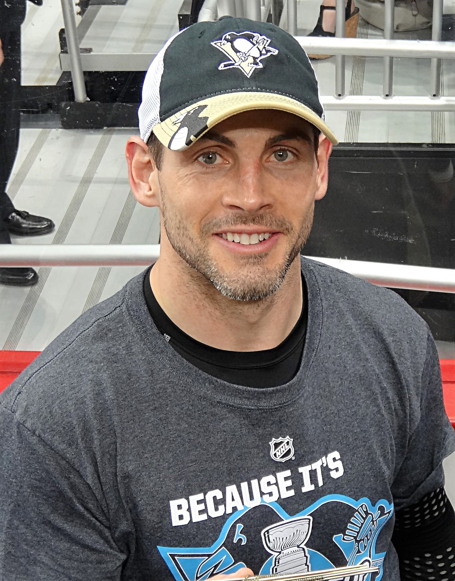 Pittsburgh Penguins forward after a game against the Carolina Hurricanes, April 27, 2013, at Consol Energy Center in Pittsurgh, PA.